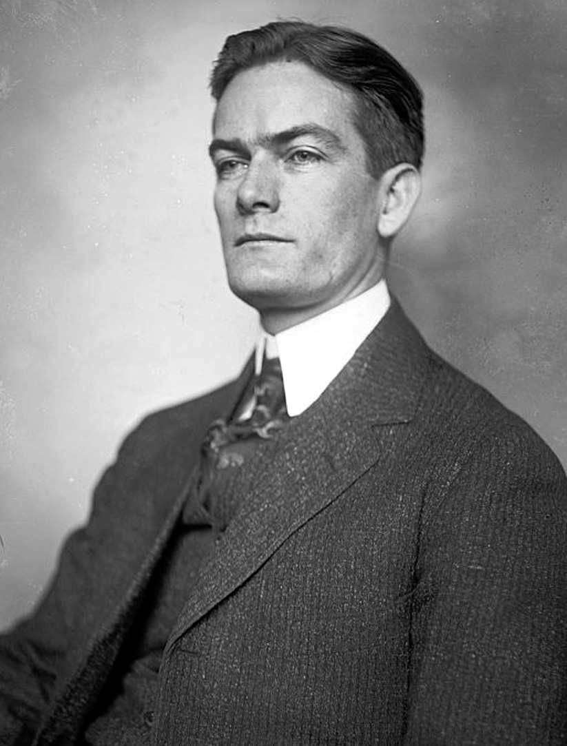 Paul B. Johnson, Governor of Mississippi and US Representative